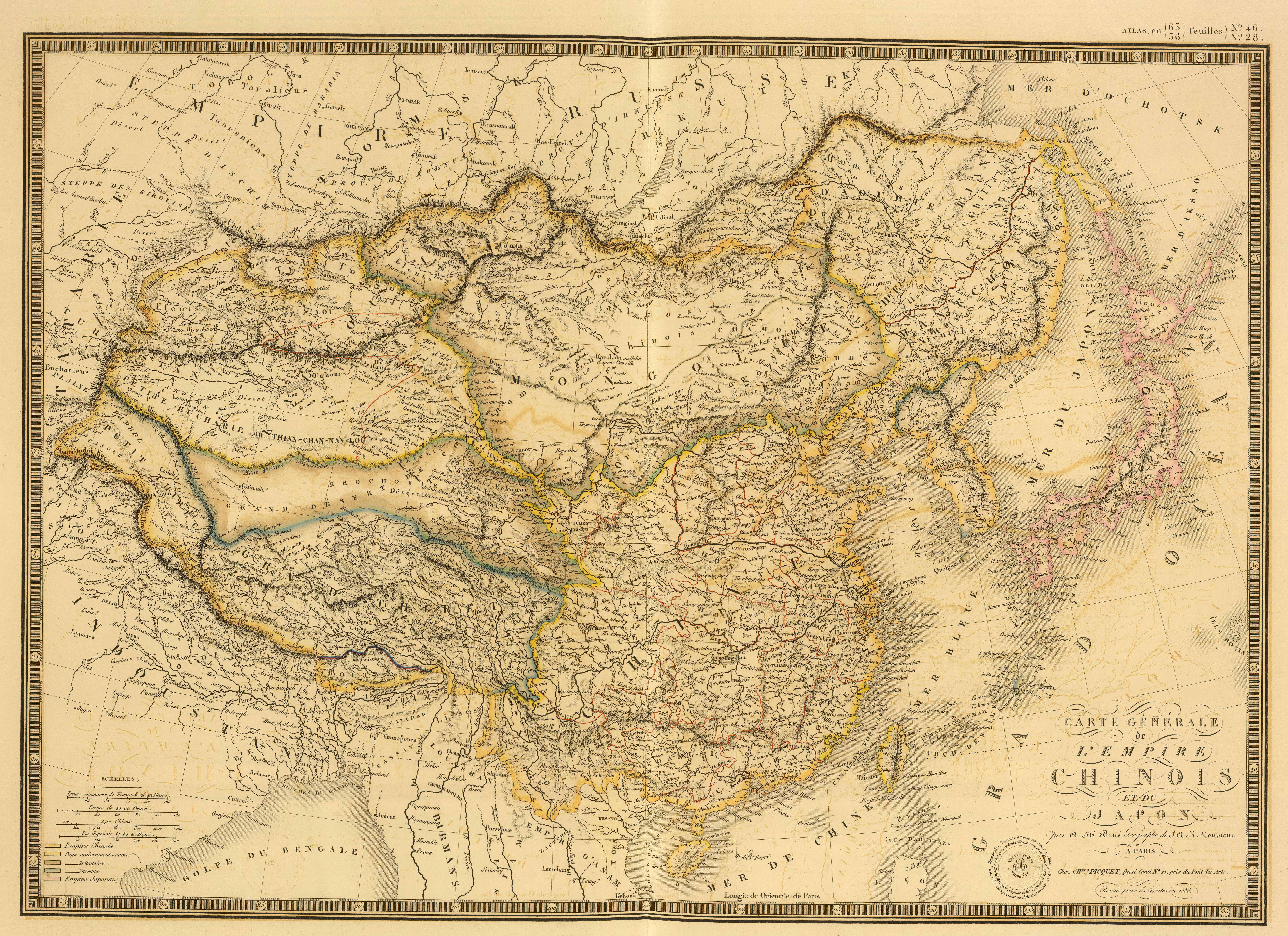 1836 French map of China and Japan published by C. Picque in Paris. Note the lower course of the Yellow River prior to the 1850s floods.